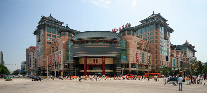 Central of Beijing, Tsinghua Science Park